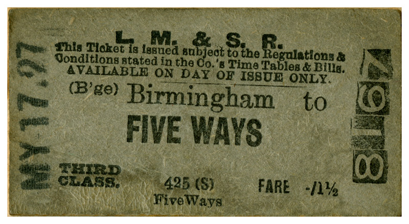 LMS Birmingham to Five Ways train ticket. Issued on 17 May 1927. The Wingate Bett transport ticket collection, Vol.86- 22.